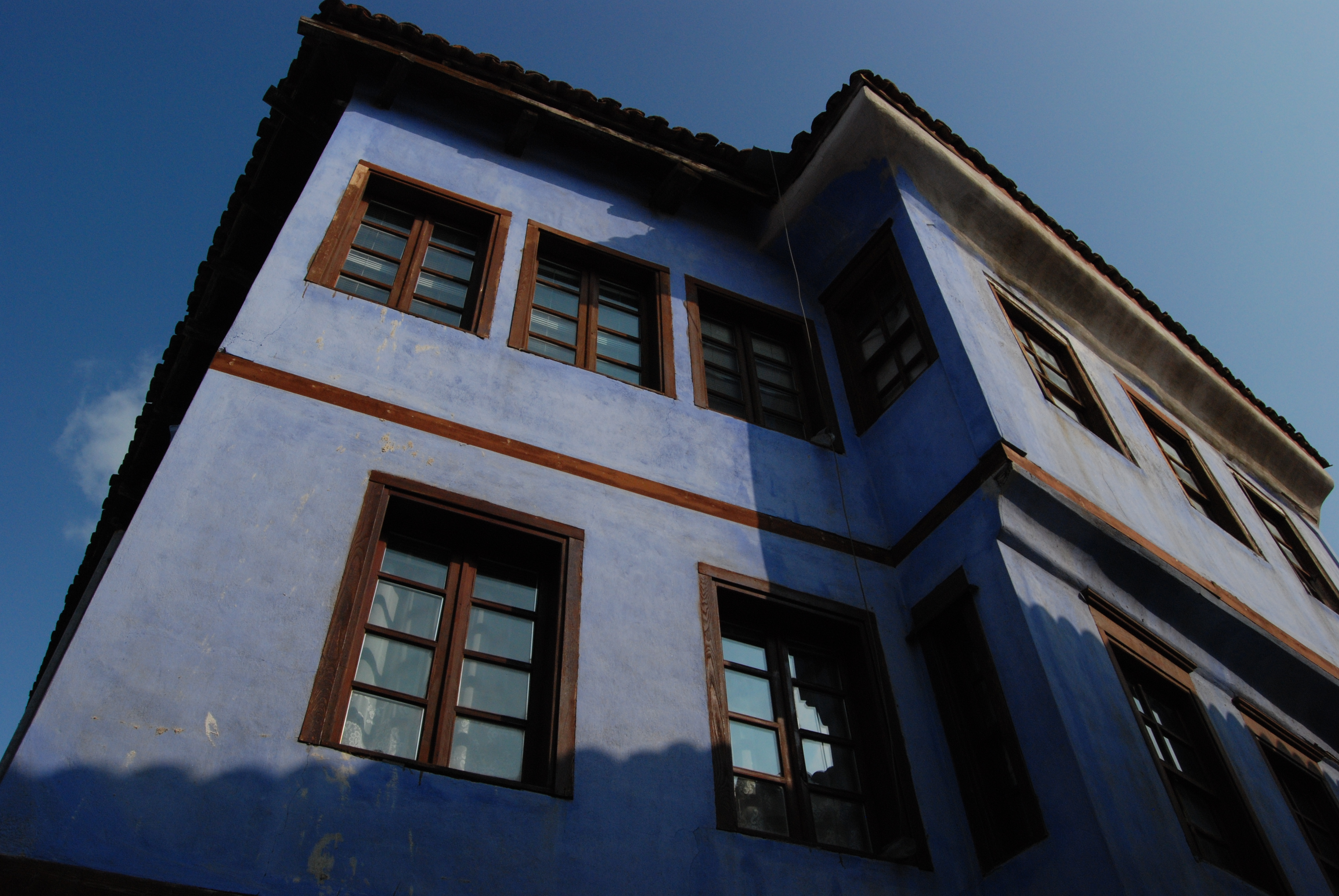 Voden Varosha